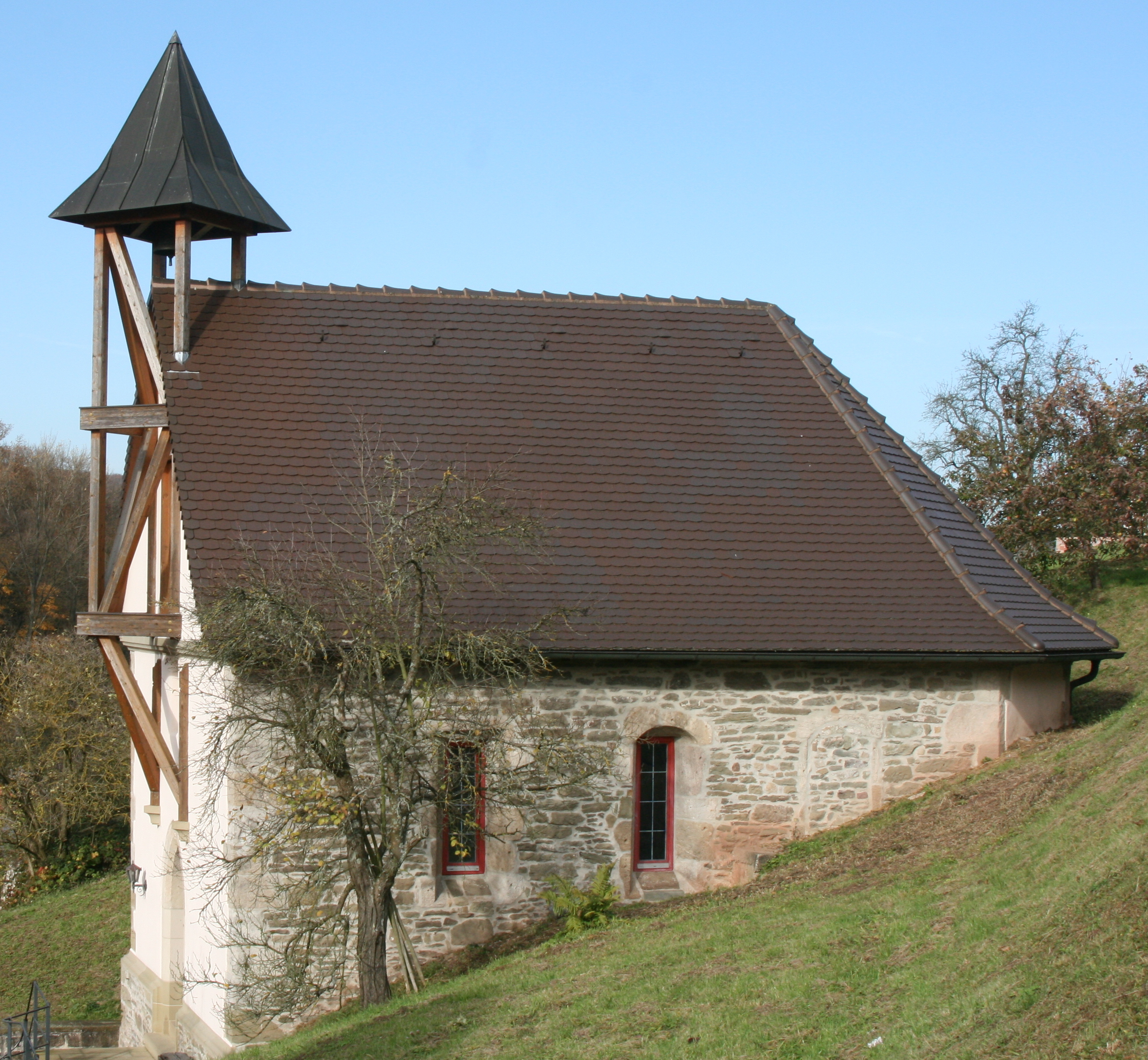 Chapel in Löwenstein-Teusserbad